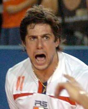 Italian volleyball player Matias Guidolin.